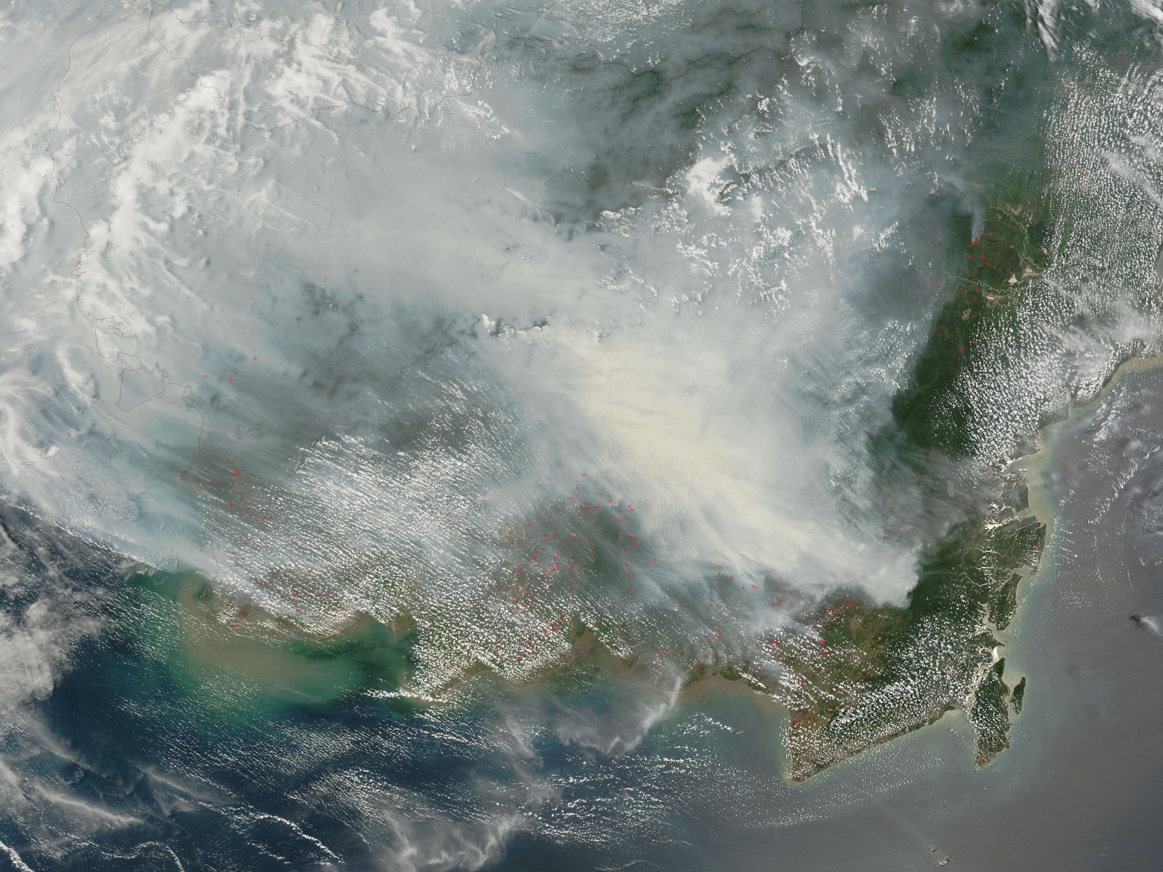 Fires on Borneo Thick smoke hung over the island of Borneo when the Moderate Resolution Imaging Spectroradiometer (MODIS) on NASA’s Terra satellite passed overhead on October 5, 2006. The sensor detected scores of fires (locations marked in red) in the Kalimantan province of Indonesia, and smoke billowed northward over the Malaysian part of the island, as well. The fires occur annually in the dry season (August-October), caused mainly by land-clearing and other agricultural fires. Fires escape control and burn into forests and peat-swamp areas. Fires in peat—thick layers of dead, but un-decayed vegetation—are extremely smoky and difficult to put out. Some of the blazes will only be extinguished when the monsoon rains start in upcoming weeks.